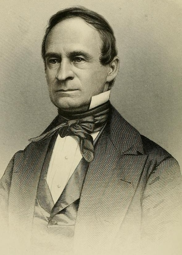 Samuel Page Benson (Maine Congressman)